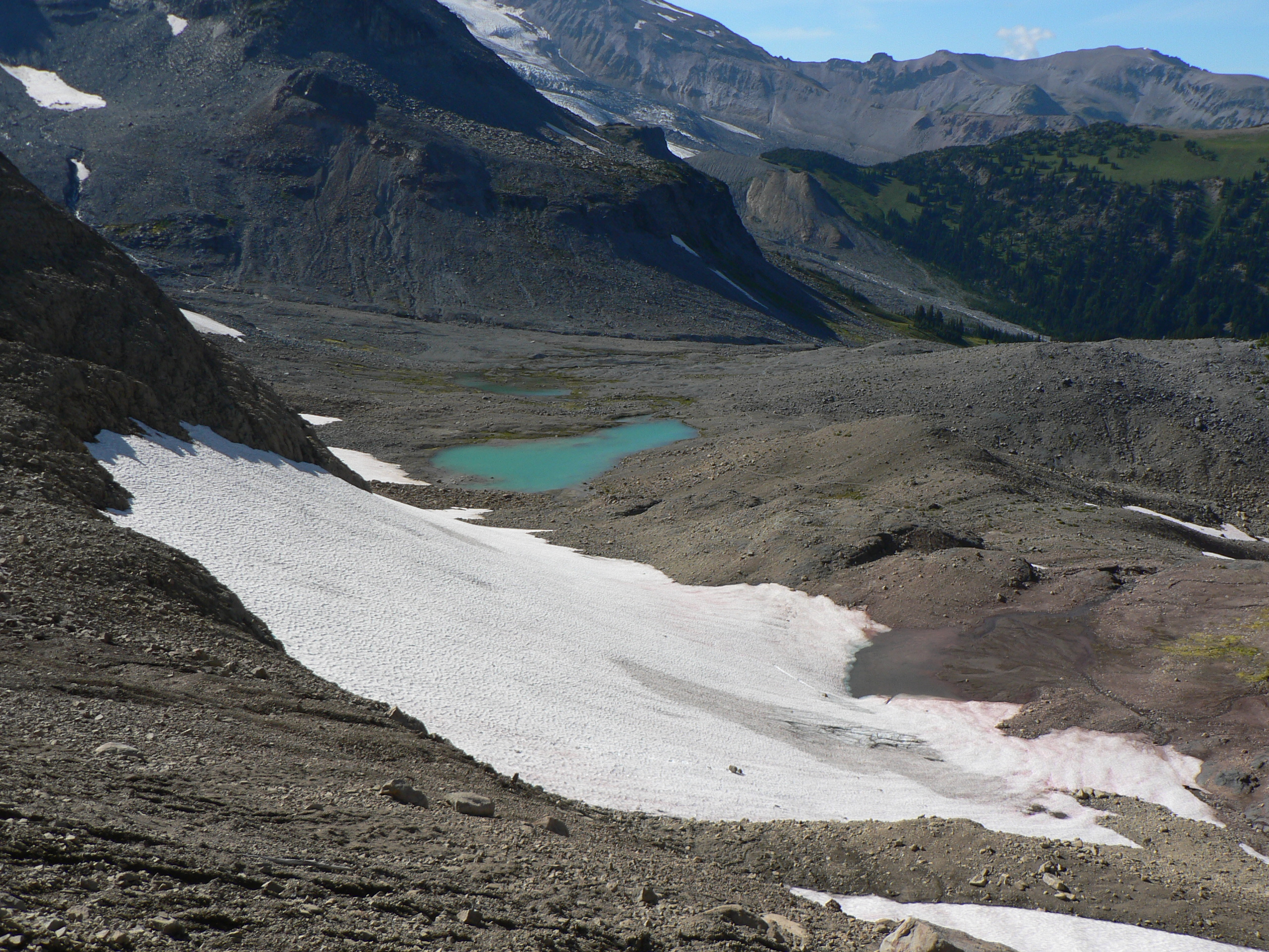 Tarn (6320 feet); snowfield (foreground); Meany Crest (behind tarn); Emmons Glacier (top); Third Burroughs Mountain (right skyline)